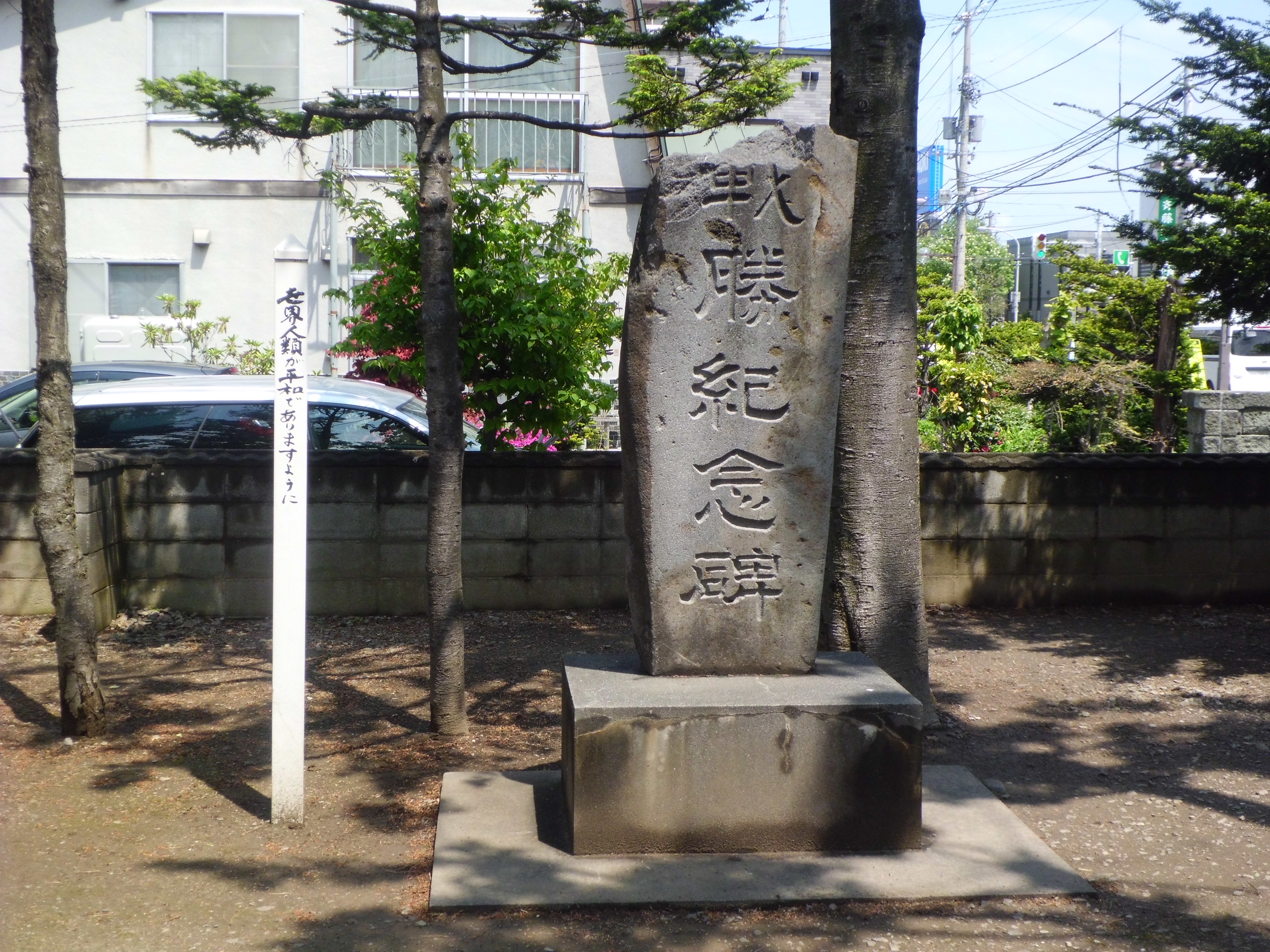 Triumphal Monument of Russo-Japanese War at Naebo Shrine